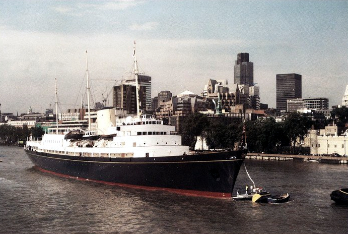 The Royal Yacht Britannia on the Thames River in London (UK), in late September 1991.